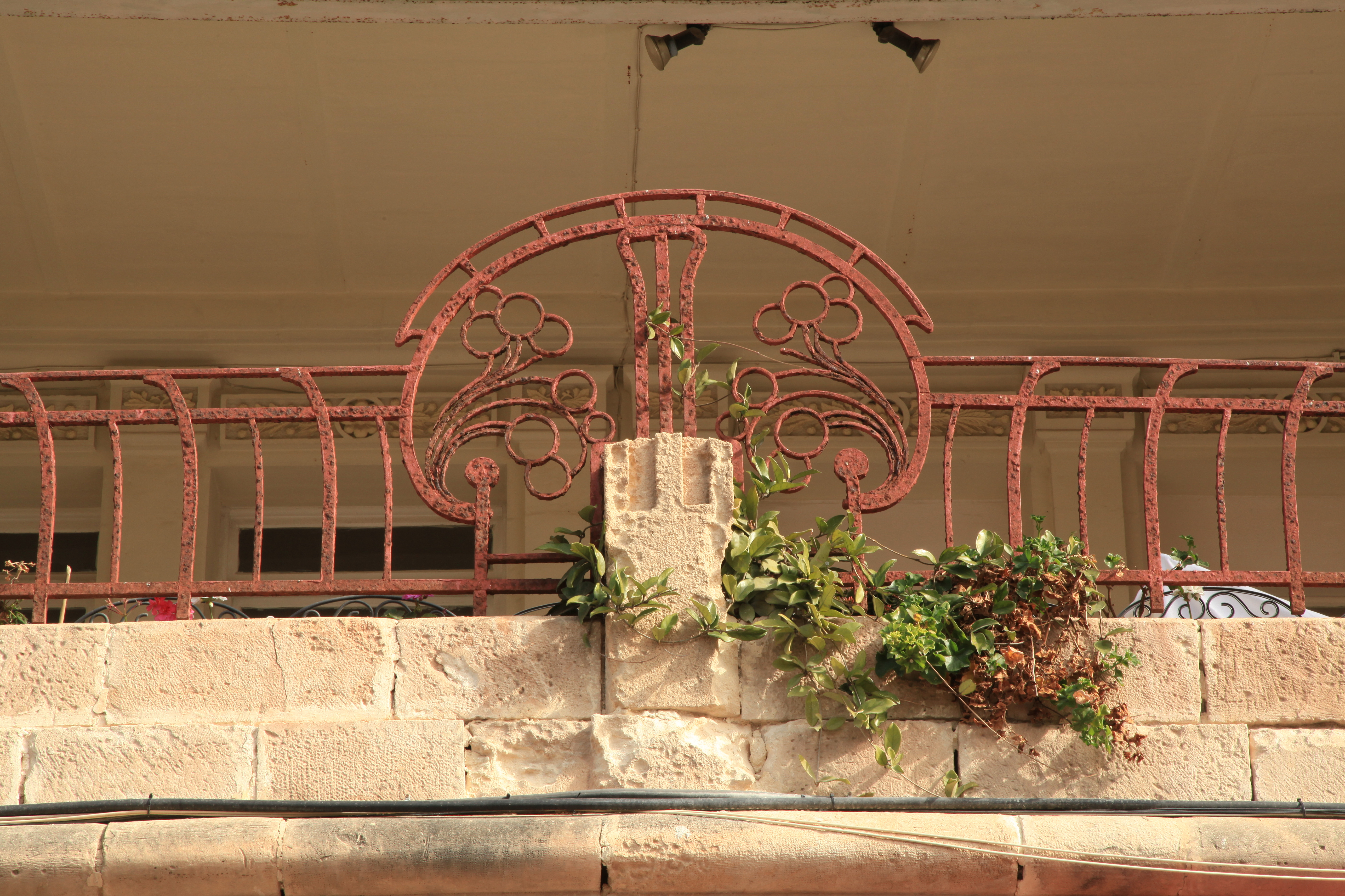 Balluta Buildings, Pjazza tal-Balluta in St. Julian's (San Ġiljan), Malta